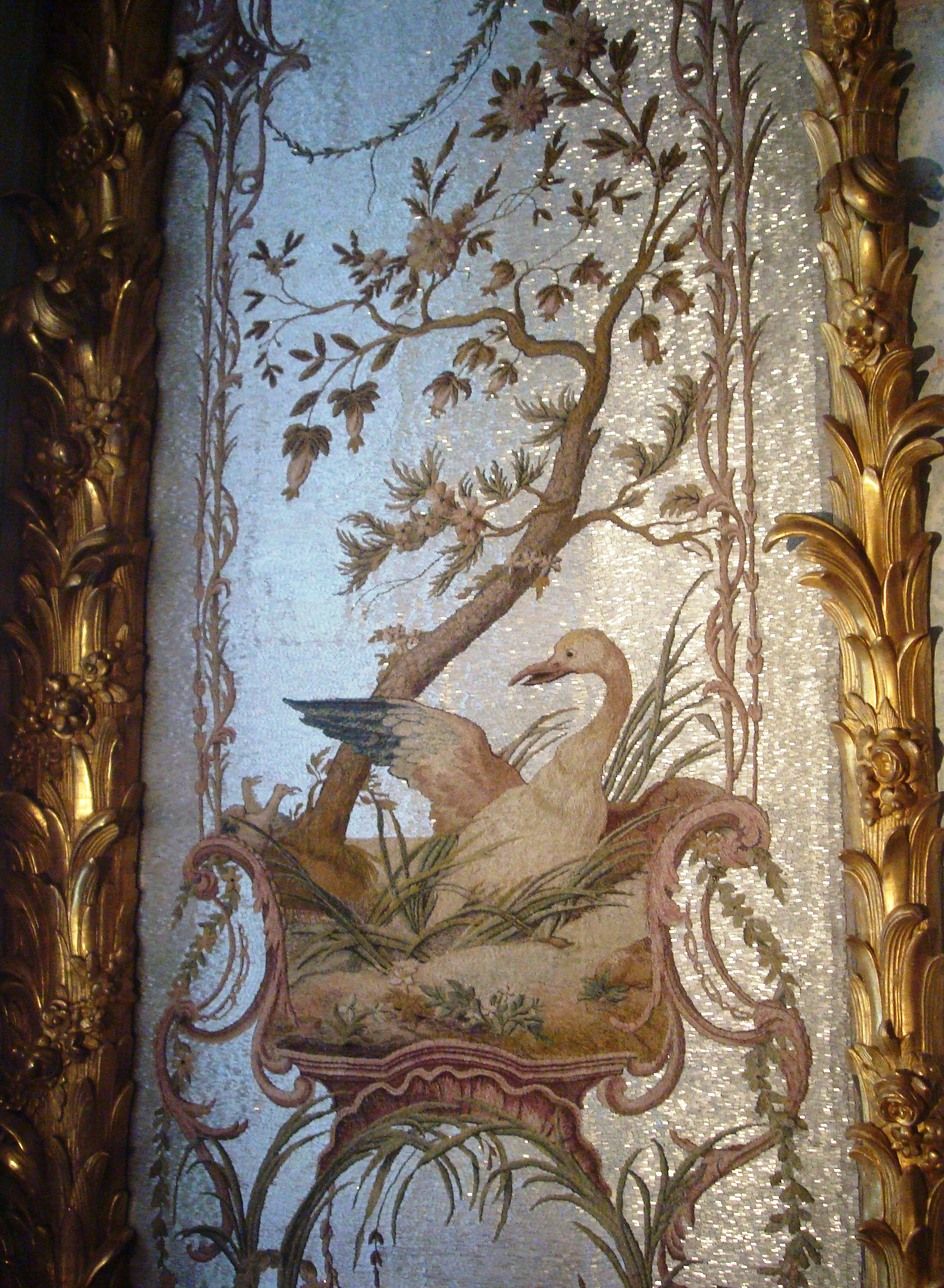 Buglework panel from the Buglework study in the Chinese palace (Oranienbaum, Russia)